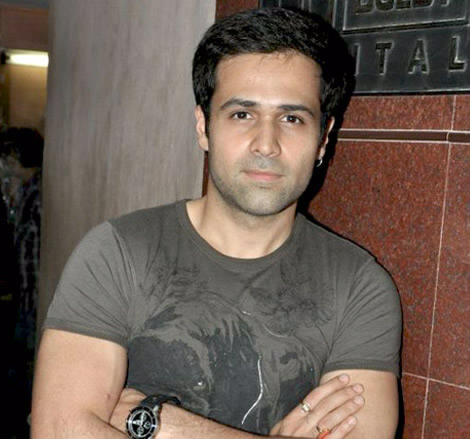 Emraan Hashmi at Mahesh Bhatt graces 'Once Upon A Time In Mumbaai' screening